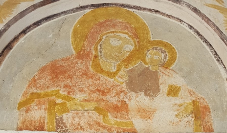 Sain Mary Fresco above the Western Entrance of Saint George Church in Mikros Prinos